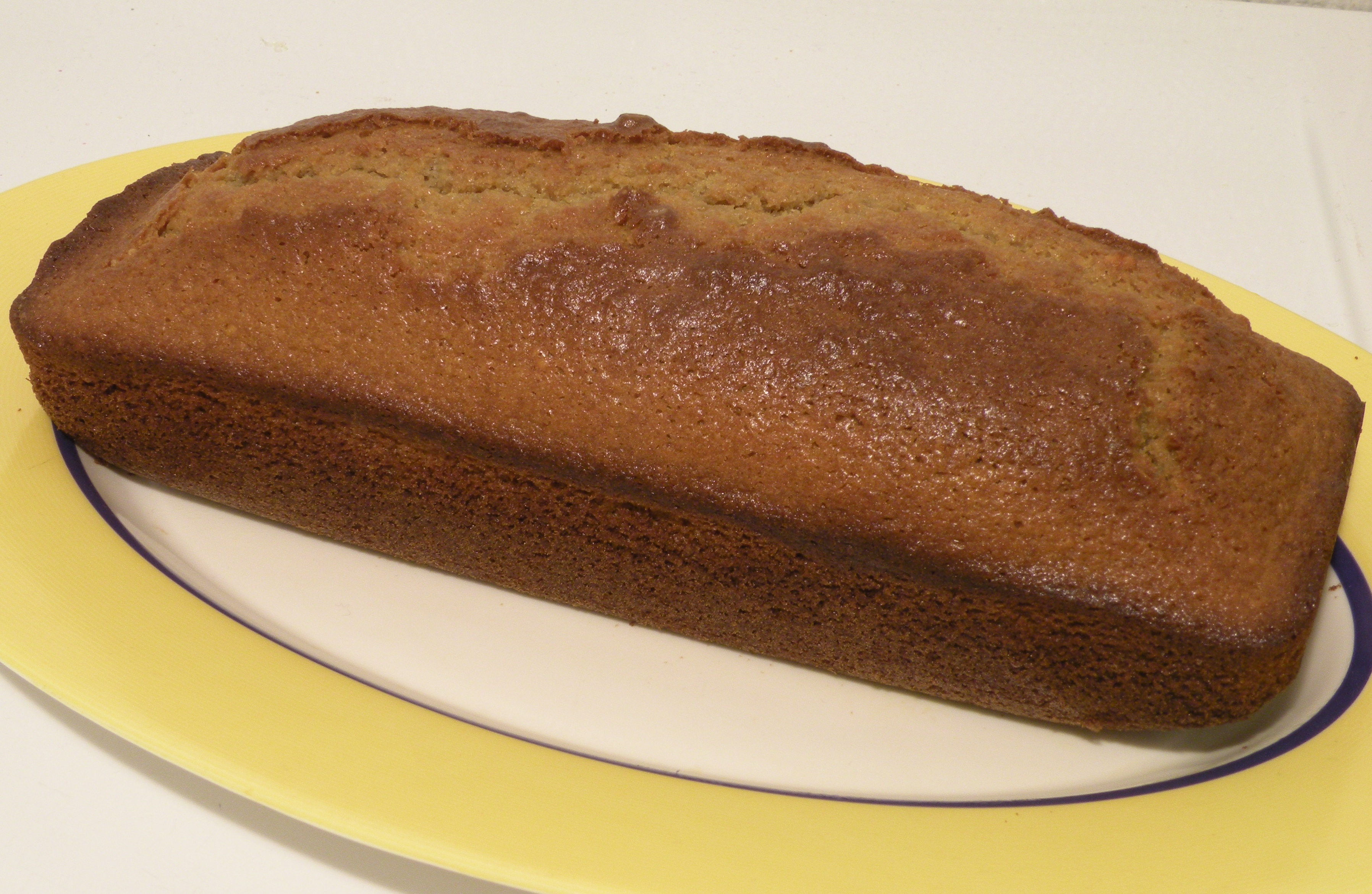 Home made Carambar cake.